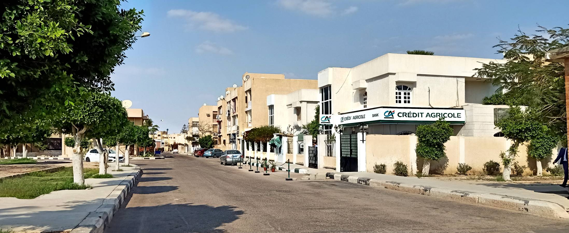 Sadat City, Egypt.